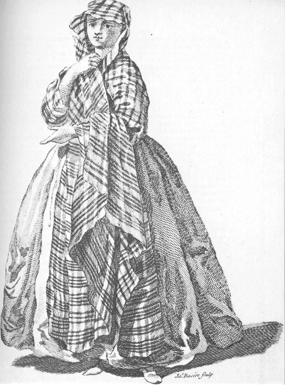 Scottish town lady wearing a waist-width striped plaid doubled and pulled over her head, the ends reaching her ankles, 1745